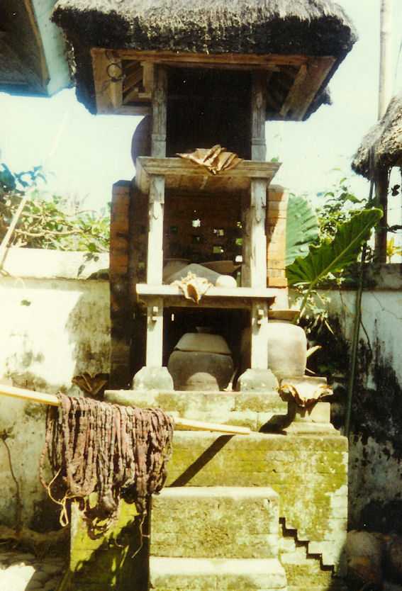 Taken in 1982 in Tenganan, this image shows the bound bundles of thread drying. They are placed on the steps of the family temple, perhaps because this is a sacred place out of the reach of evil spirits.